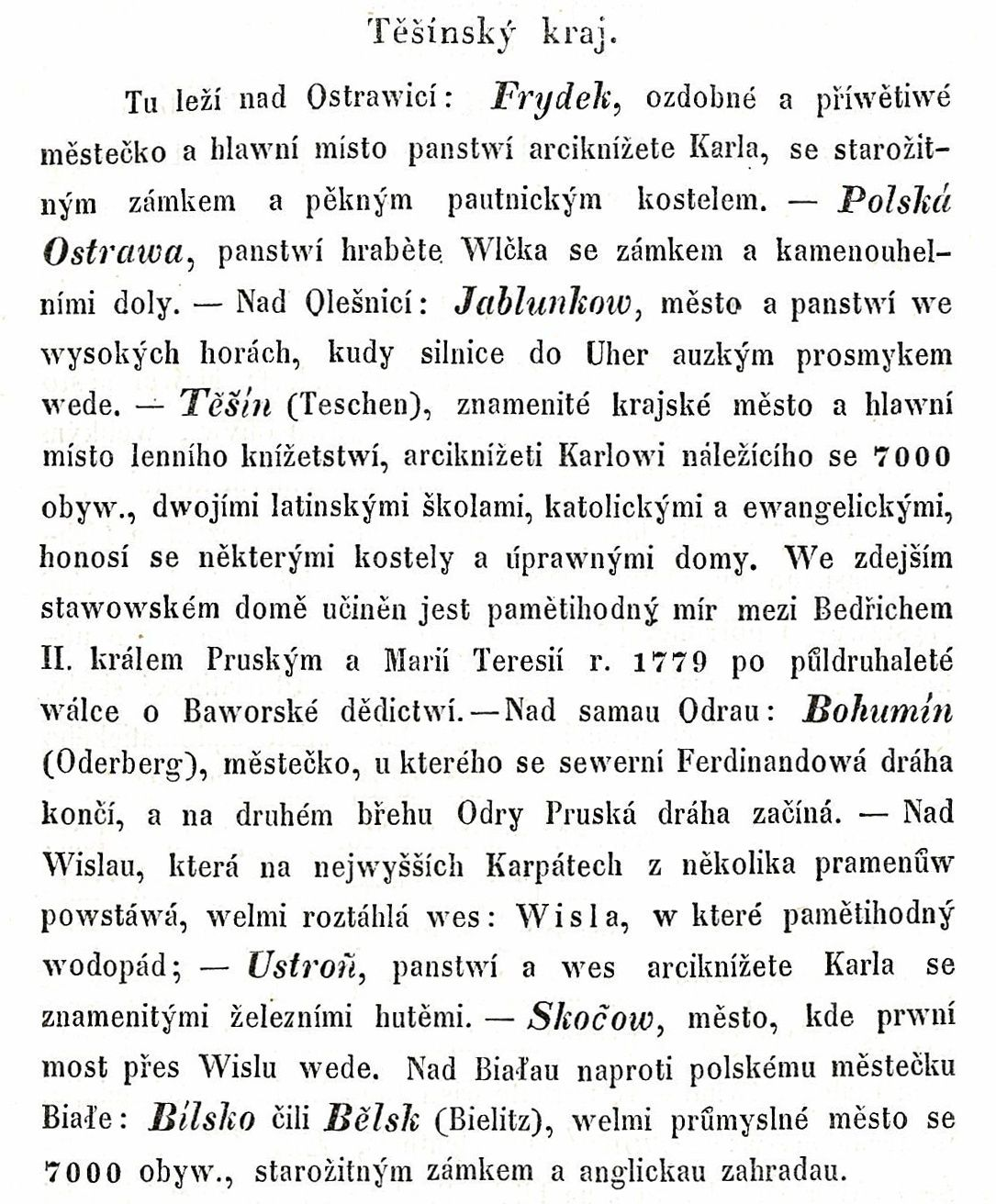 Short description of the Těšín Region of the Duchy of Silesia within the Austrian Empire.